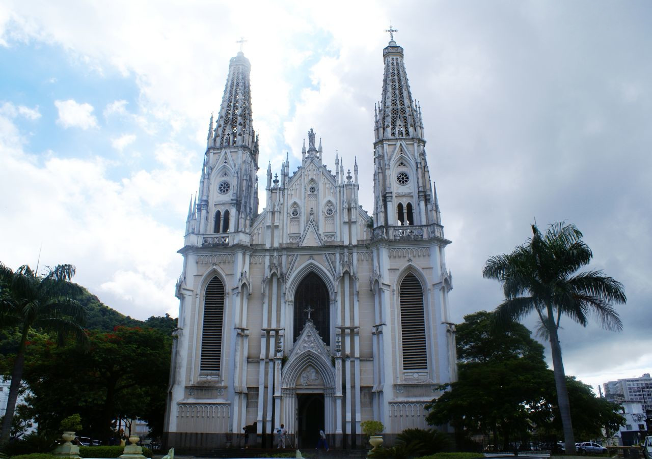 The Cathedral of Vitória